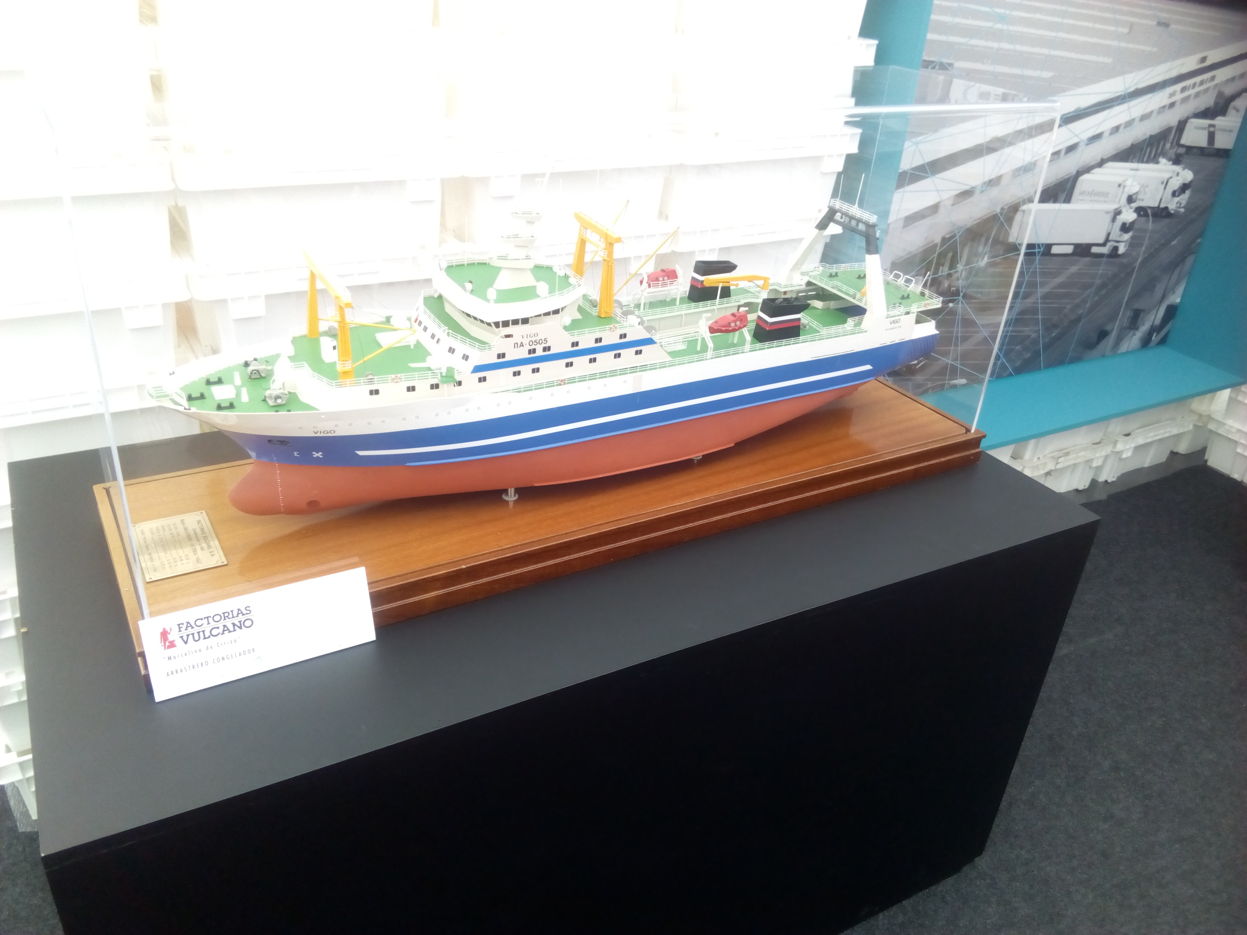 Vigo Sea Fest 2017